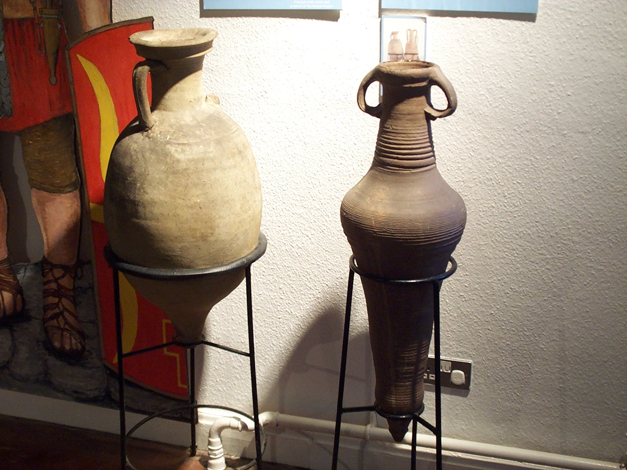 A Roman amphora on the left and a wine jar on the right in Bedford Museum.